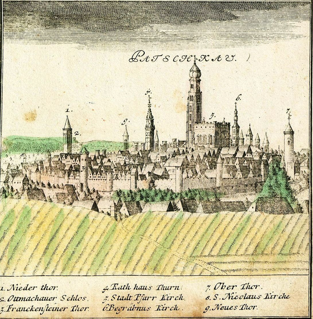 Paczków is a town in Nysa County, Opole Voivodeship, Poland.